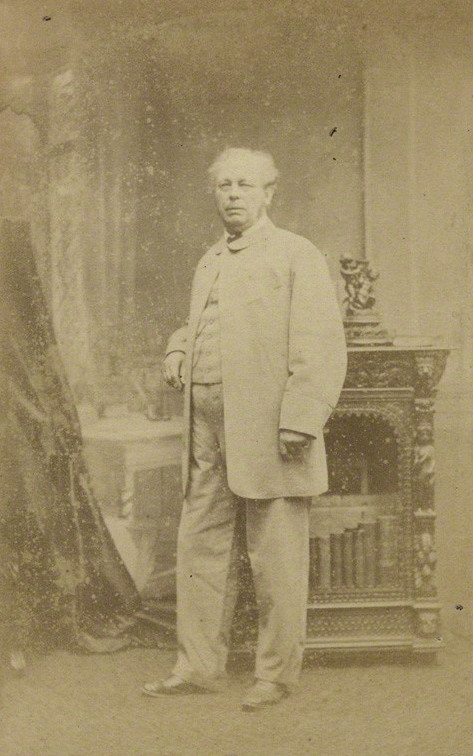 Portait of Artist Edward Duncan